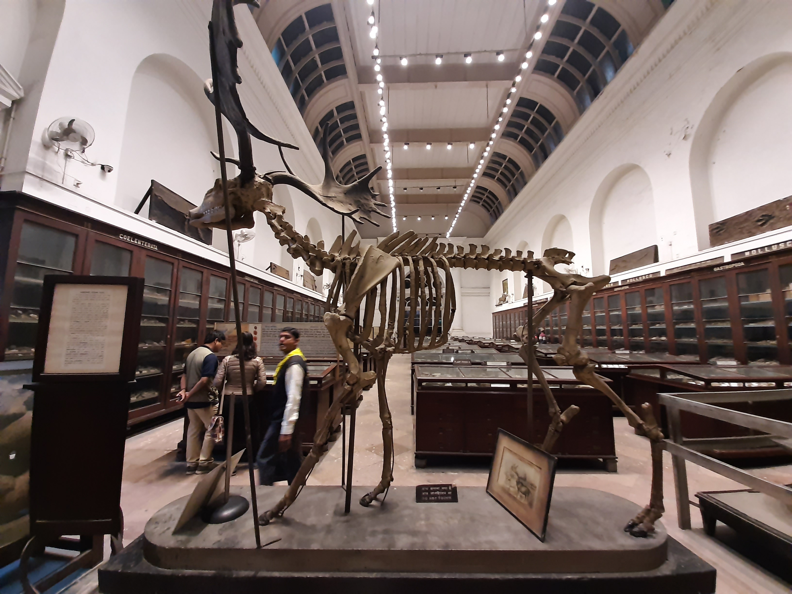 Skeleton of an Irish deer, Indian Museum